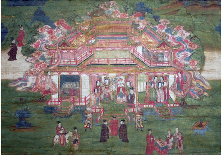 Mani’s Parents, fragment of hanging scroll, gold and pigments on silk, H: 39.7 cm, W: 57.1 cm, southern China, 14th/15th century (B67D15, Avery Brundage Collection, Asian Art Museum, San Francisco, USA).